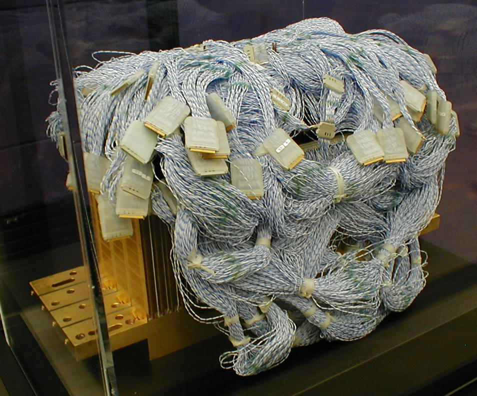 Cray-3 supercomputer "Brick" processor, taken at Computer History Museum, Mountain View, USA